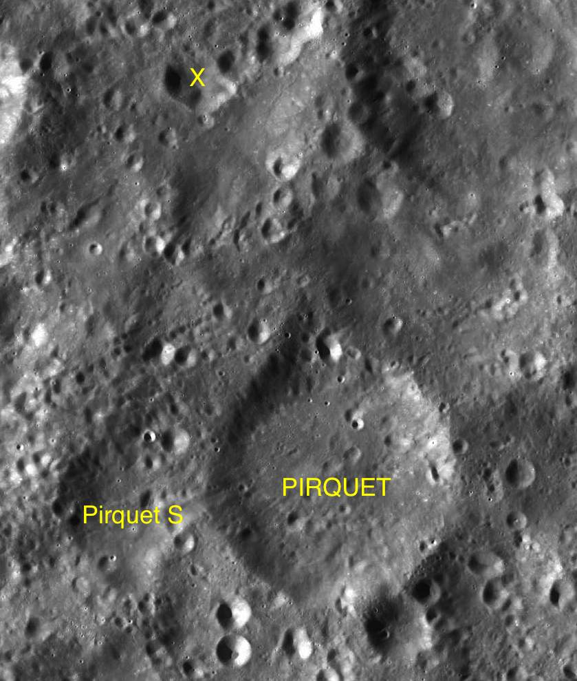 Part of the chart LAC-102 used for the presentation